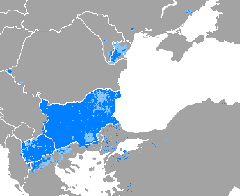 The map shows the areas where dialects of the Bulgaro-Macedonian dialect continuum are spoken: by a plurality of native speakers by a minority. Bulgarian and Macedonian, which together comprise the Eastern group of Southern Slavic, share a number of characteristics that set them apart from all other Slavic languages - such as the lack of cases, the post-fix article, lack of infinitive, formation of comparative forms of adjectives with the prefix po-, and the existence of preizkazno naklonenie (преизказно наклонение), a verb tense used to convey information about events which the speaker didn't witness. On a local level there is no sharp boundary between Bulgarian and Macedonian dialects and the question whether Bulgarian and Macedonian are distinct languages or dialects of a single language cannot be resolved on a purely linguistic basis (see e.g. Chambers and Trudgill, Dialectology, Cambridge University Press (1998) or David Crystal. The Cambridge Encyclopedia of Language, 2nd ed. (2010)).